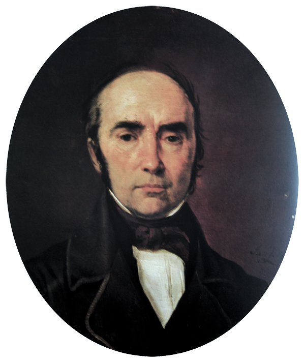 The only known contemporary portrait of Simonas Daukantas (1793–1864). The portrait was discovered by Juozas Tumas-Vaižgantas in Ketūnai Manor (near Kuršėnai) in 1901.